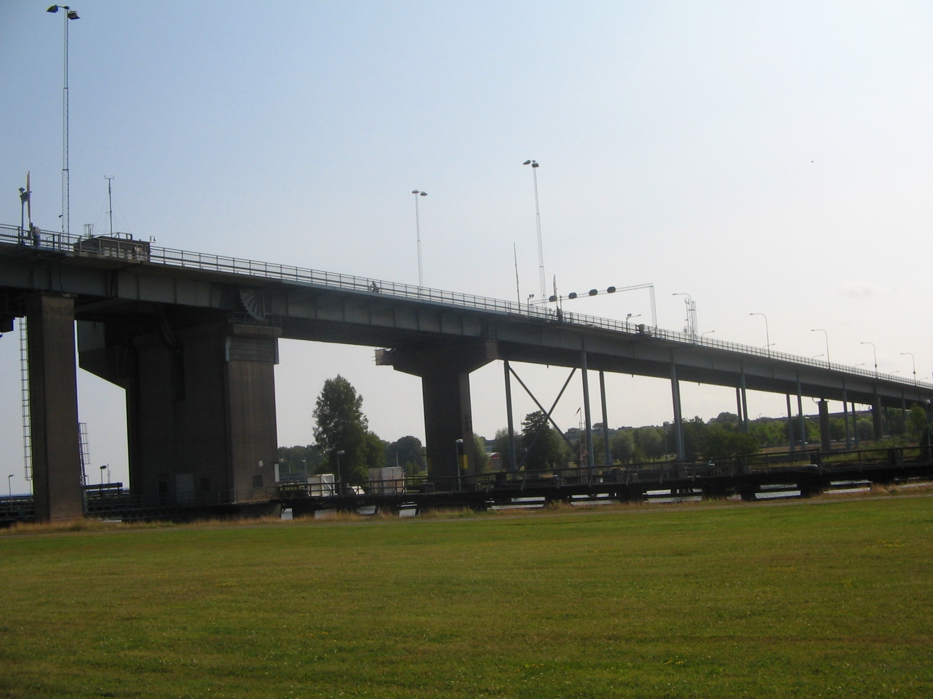 Dalbobron in Vänersborg, Sweden